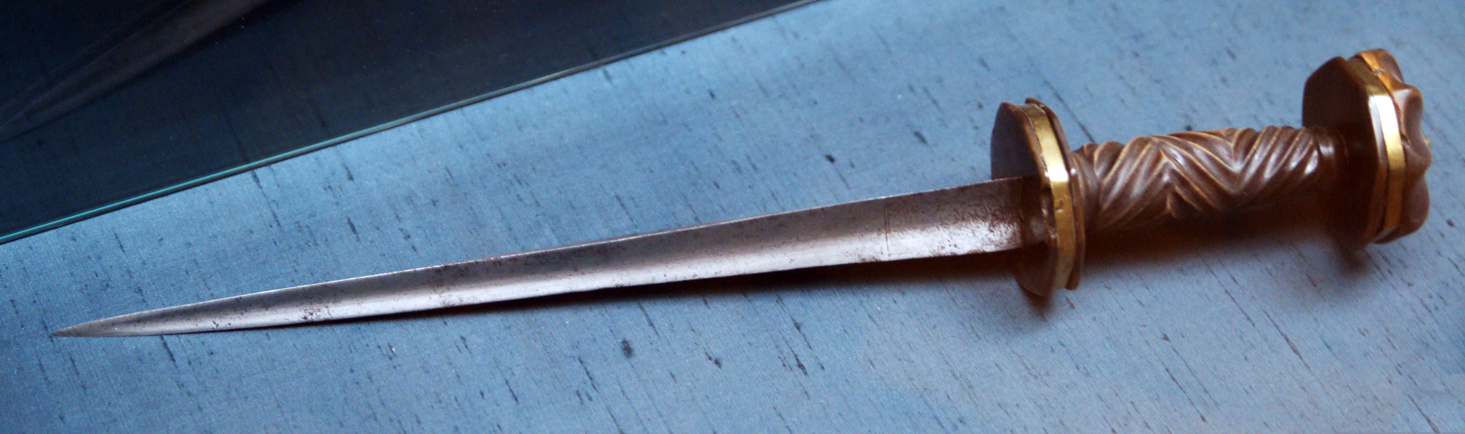 Rondel dagger, probably used by Emperor Maximilian I